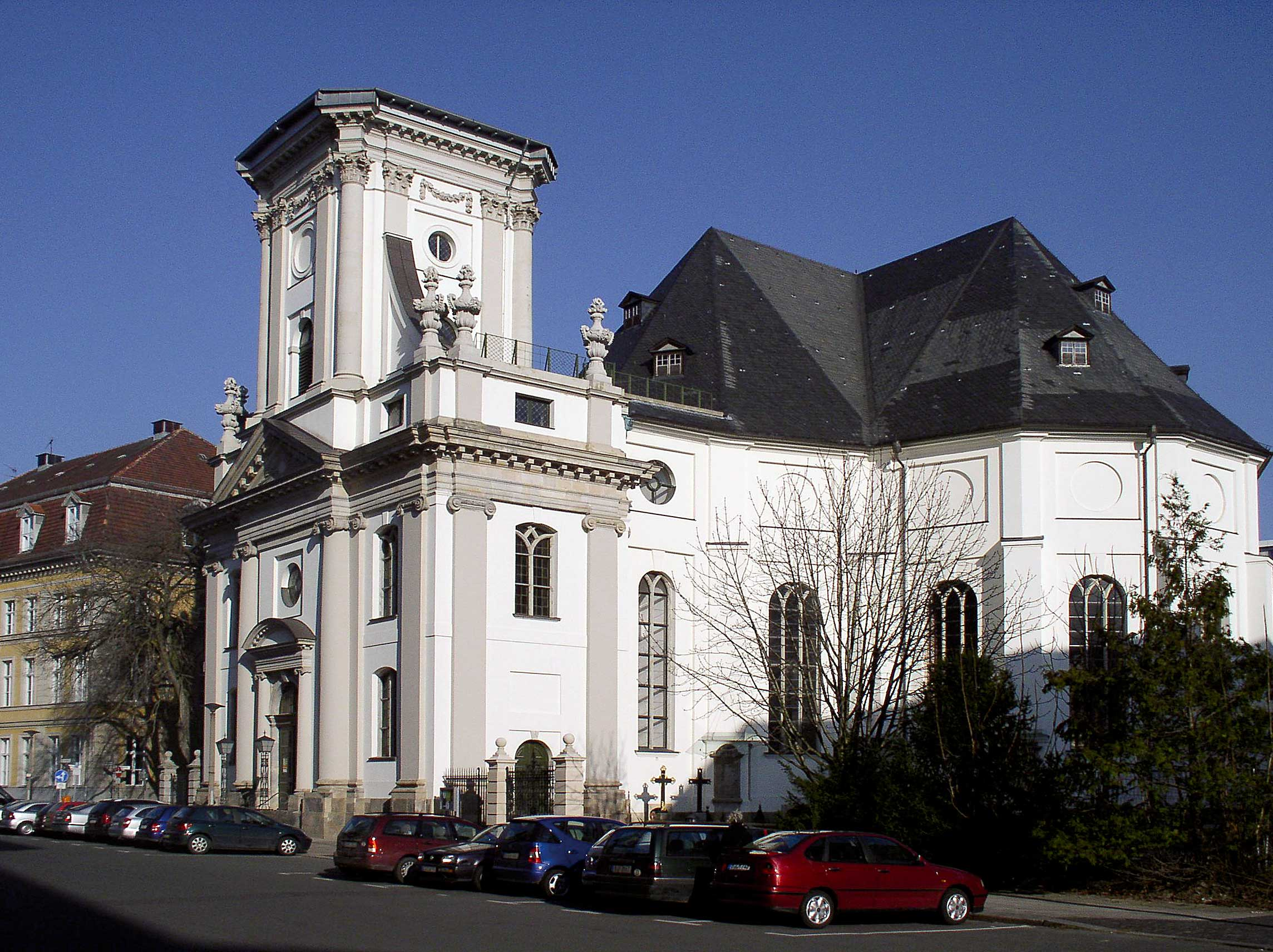 revised image of Image:Parochialkirche Berlin-Mitte.jpg